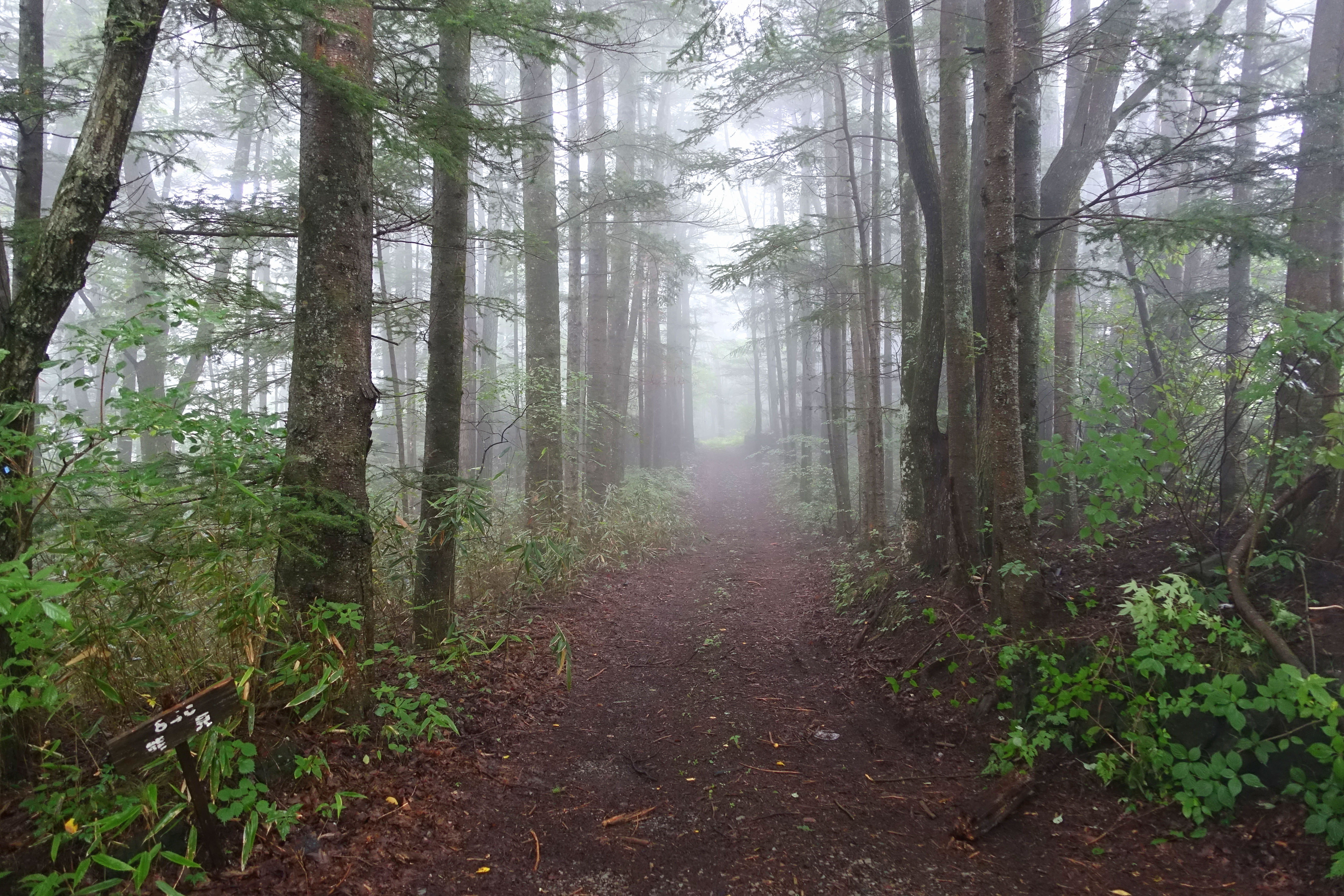 Road in Karuizawa, Nagano, Japan.